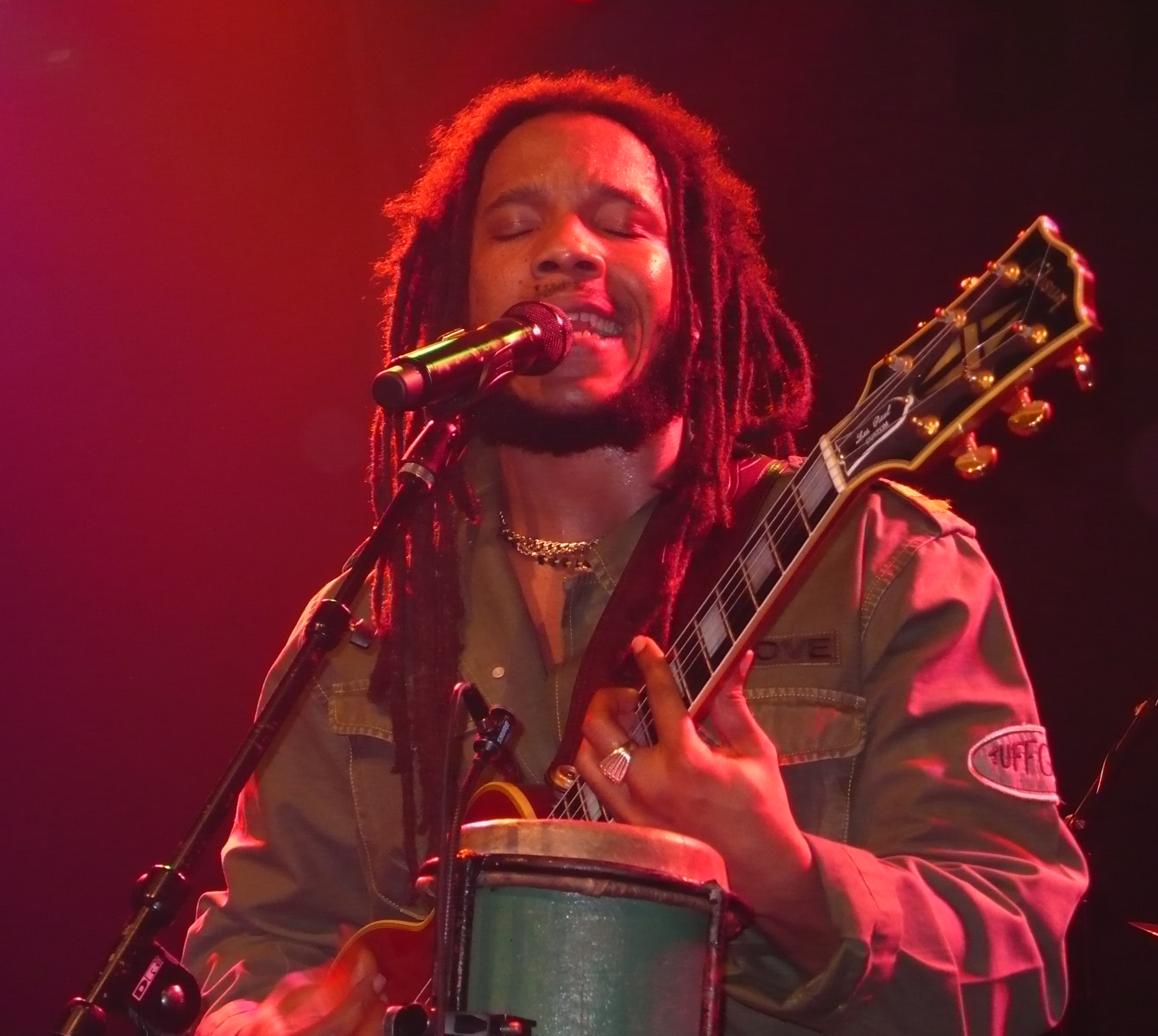 Reggae artist Stephen Marley performing in Vancouver, Canada on the first concert of his tour to promote the album "Mind Control", 14 April 2007